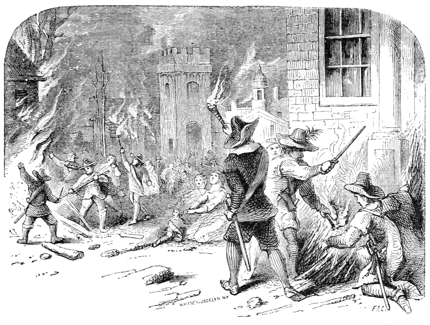 Engraving captioned "The Burning of Jamestown" showing the burning of Jamestown during Bacon's Rebellion (1676). From Illustrated School History of the United States and the Adjacent Parts of America: from the Earliest Discoveries to the Present Time (1857) available at the Internet Archive.